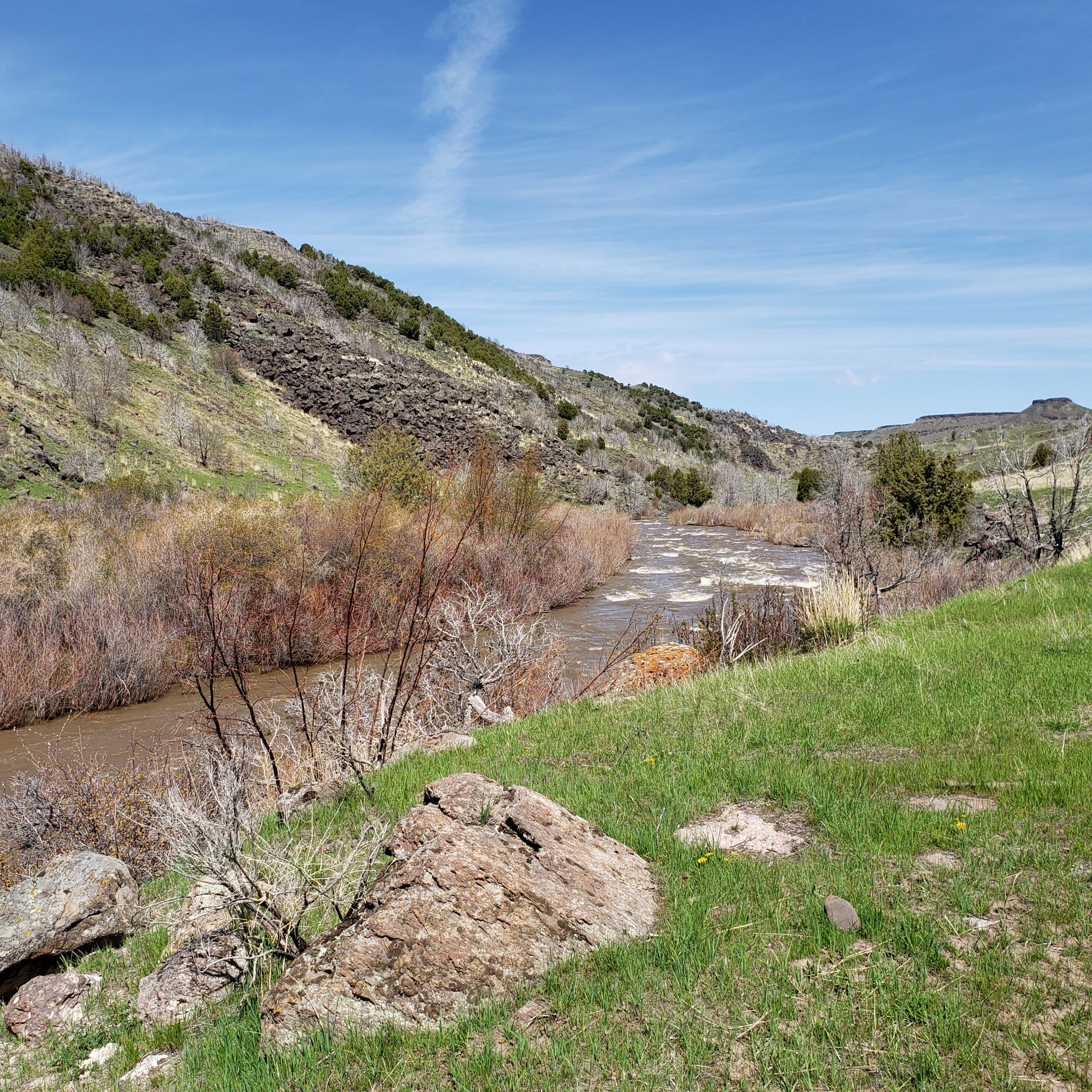 This is an image of Willow Creek in flood stage just downstream of its confluence with Tex Creek, about a mile above before it flows into Ririe Reservoir